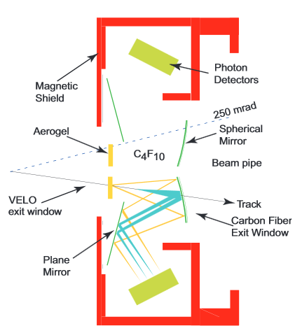 RICH-1 LHCb scheme